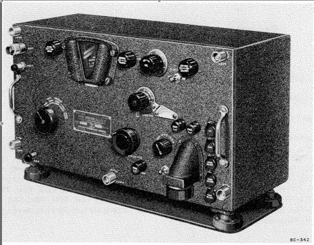 BC-342 radio receiver from US Government data sheet